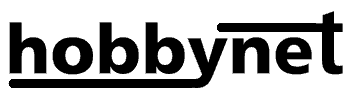 Logo of HCC!hobbynet